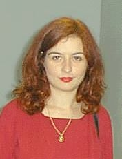 Alisa Maric,Dortmunder Schachtage 2002, Photographer Gerhard Hund.